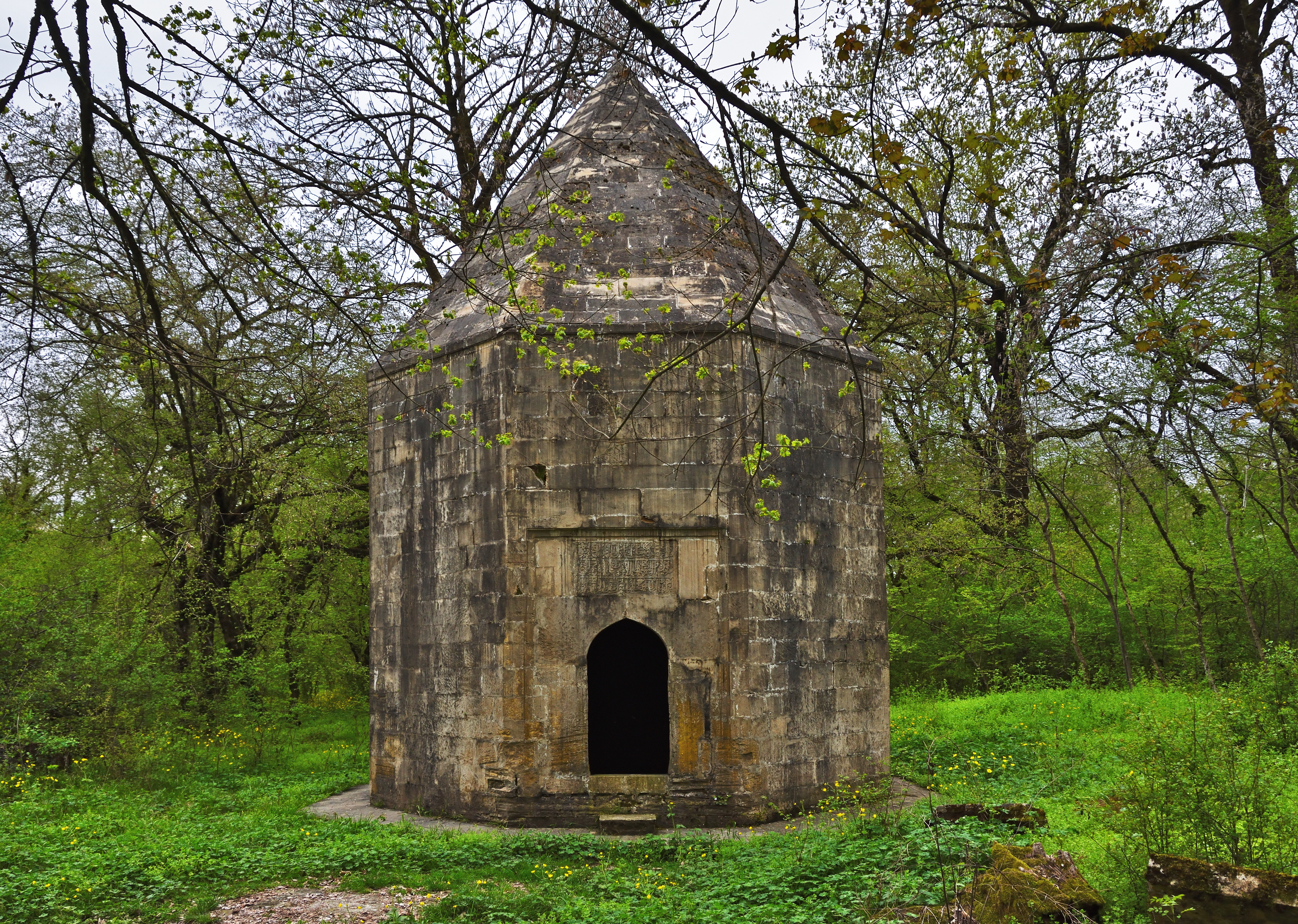 Sheikh Mansur Tomb, XV century, Hazra village, Qabala district, Azerbaijan